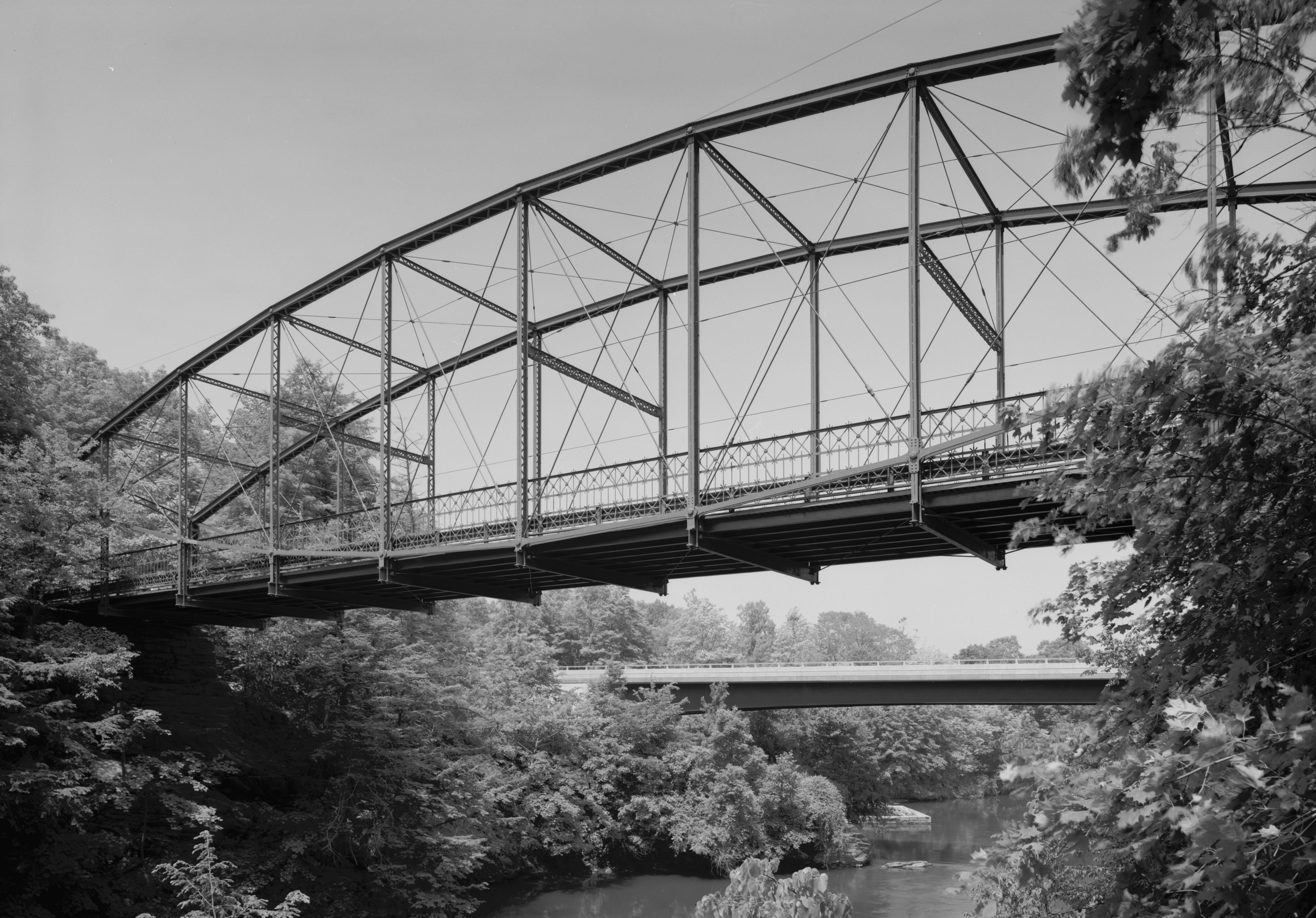 Lover's Leap Lenticular Bridge, Spanning Housatonic River on Pumpkin Hill Road, New Milford (Litchfield County, Connecticut)